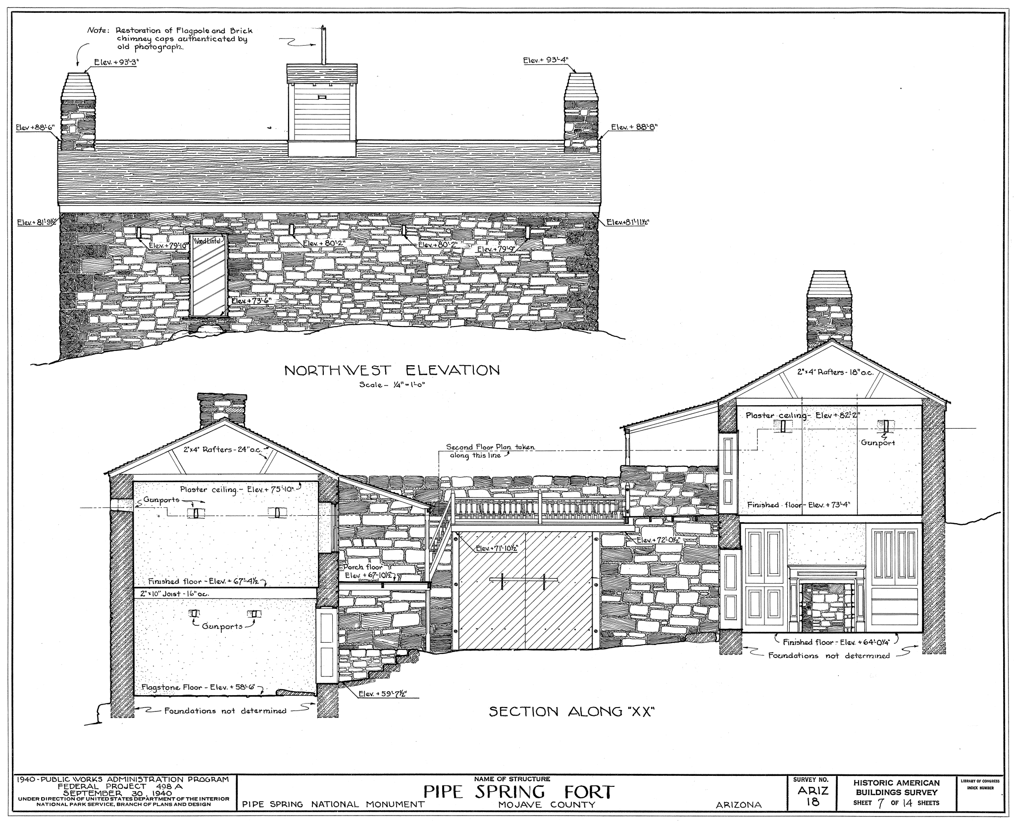 Building survey drawing section — of Windsor Castle at Pipe Spring National Monument, Arizona. Image: HABS—Historic American Buildings Survey of Arizona.